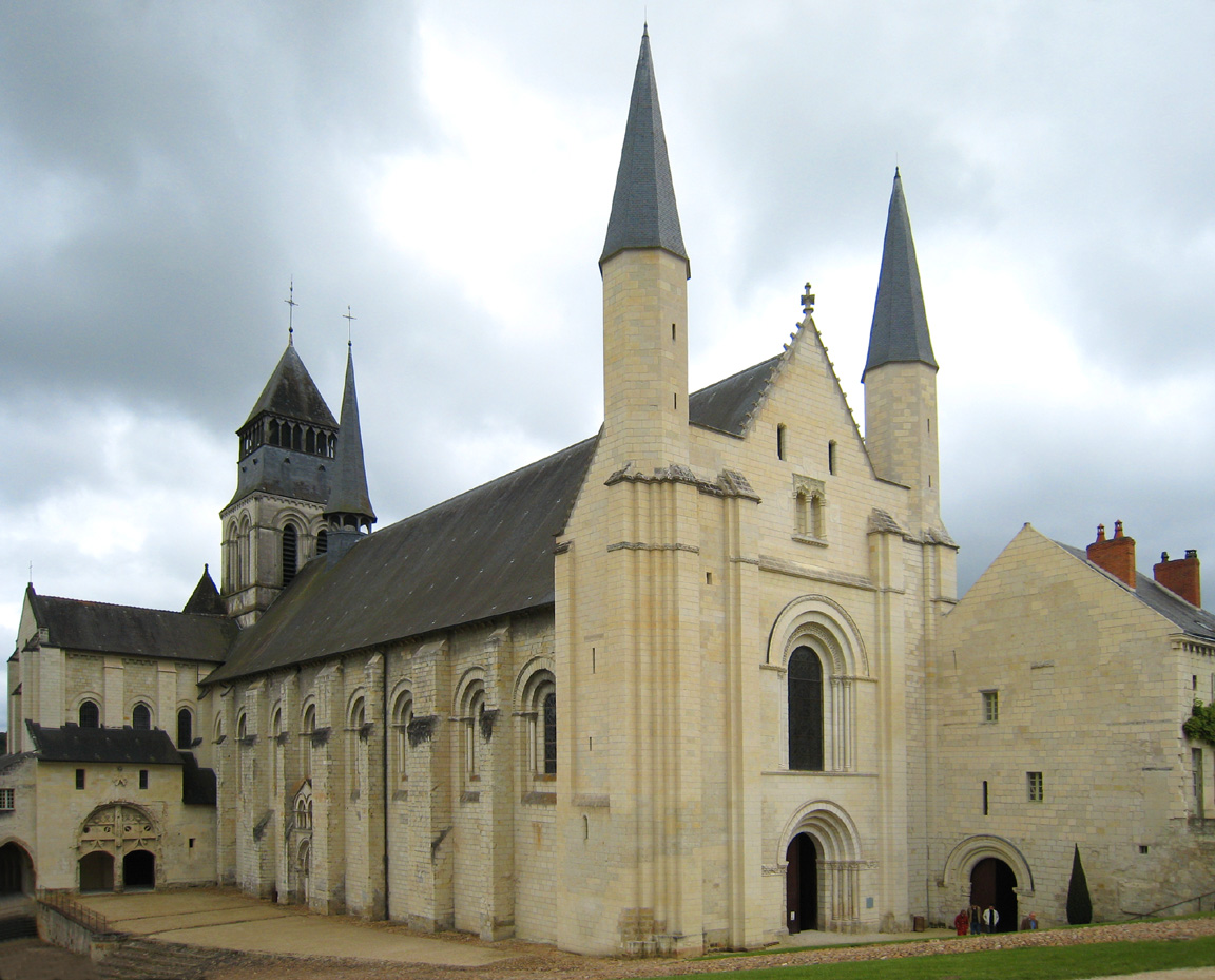 Fontevraud Abbey Chapel